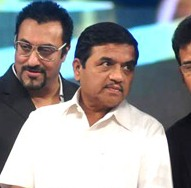 R. R. Patil at Umang Police Show 2013